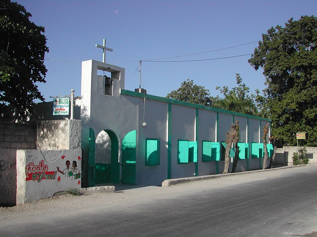 St. Paul Episcopal Church, Montrouis, Ouest, Haiti